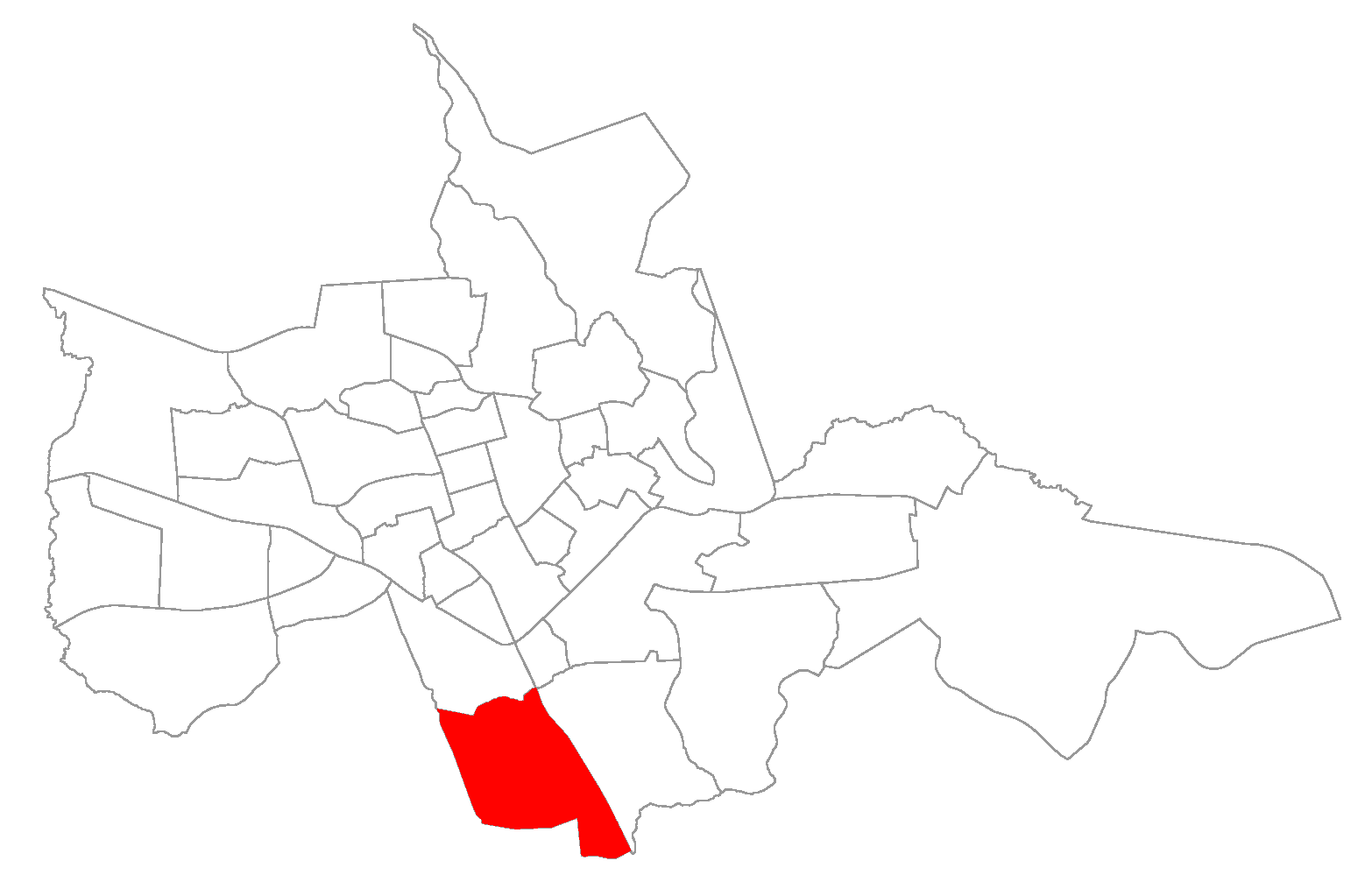 neighborhood/district of Santa Maria, Rio Grande do Sul